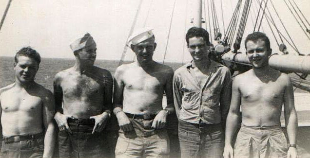 USS Anacapa office crew